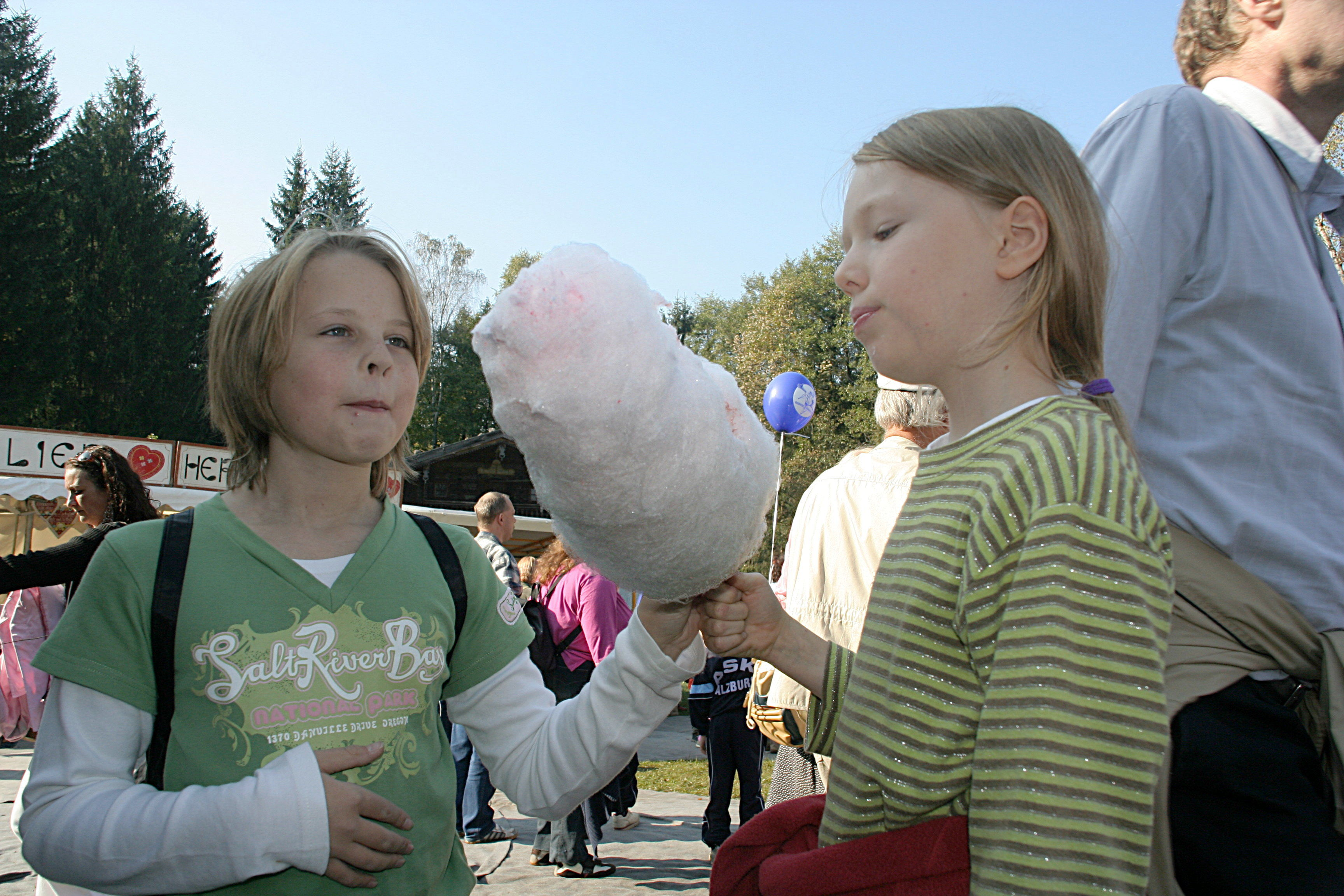 Girls enjoying cotton candy on a fair